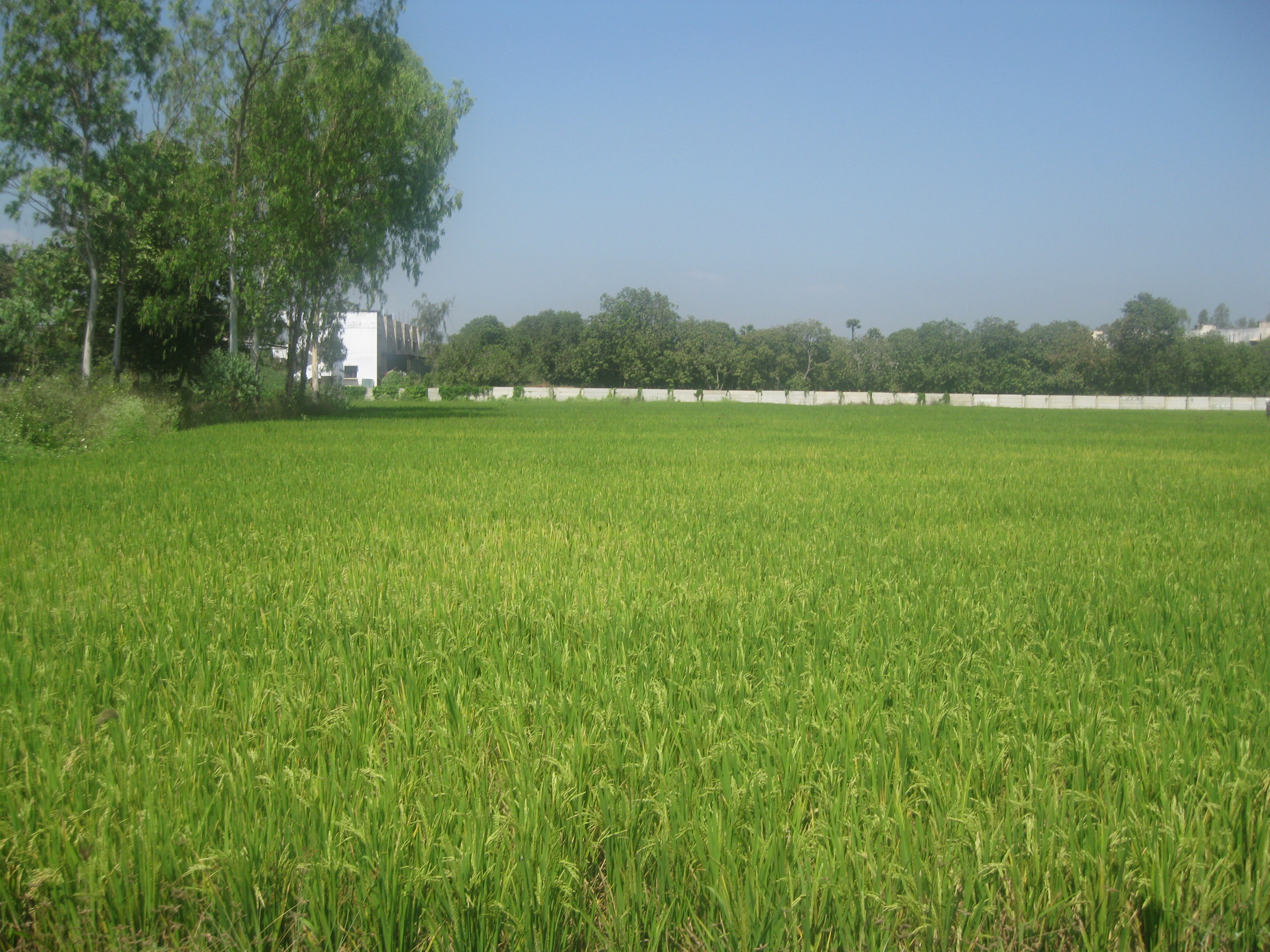 Paddy fields at Nellore